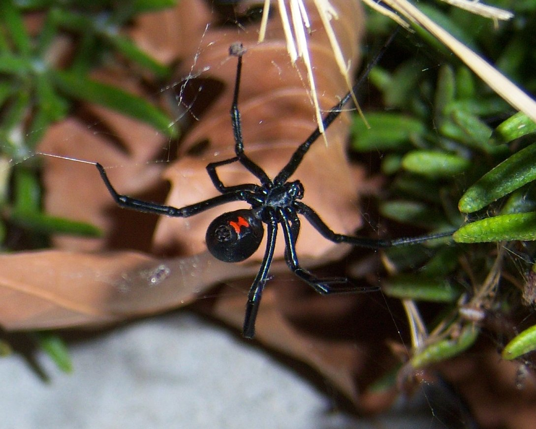 The black widow spider is a group of spiders which includes the southern black widow (Latrodectus mactans), the northern black widow (Latrodectus variolus), and the western black widow (Latrodectus hesperus). As the name indicates, the southern widow is primarily found in (and is indigenous to) the southeastern United States, ranging from Florida to New York, and west to Texas, Oklahoma and Arizona, where they run particularly rampant. The northern black widow is found primarily in the northeastern United States and southeastern Canada, though its ranges overlap that of L. mactans quite a bit. The western widow is found in the western United States, as well as in southwestern Canada and much of Mexico. Black widows range in the southern parts of British Columbia, Alberta, Manitoba and Ontario - especially on the Bruce Peninsula. They are often confused with the False Black Widows. Female black widow spiderLatrodectus sp. This is an unnamed species of Latrodectus from Jalisco state, Mexico Prior to 1970, when the current taxonomic divisions for North American black widows were set forth by Kaston[1], all three varieties were classified as a single species, L. mactans. As a result, there exist numerous references which claim that "black widow" (without any geographic modifier) applies to L. mactans alone. Since common usage of the term "black widow" makes no distinction between the three species (and many people are unaware of the differences between them). Contest Entries Pick Your Poison Lost - No Votes Challenge Factory Lost 1-5-0 Challenge Factory Lost 1-3-5 Challenge Factory Lost 2-2-5 Challenge You Won 10-3 foto Competitions Lost No Votes foto Competitions Lost 1-5-3-2 foto Competitions Challenge Factory Lost (Close) 4-5-0 Mother of All Challenge Groups Won 10-3-1 Mother if All Challenge Groups Lost 20-5-4 15 Challenges Won 5142120 A3BLost 1-3-5 Super Challenge Lost 0-0-5